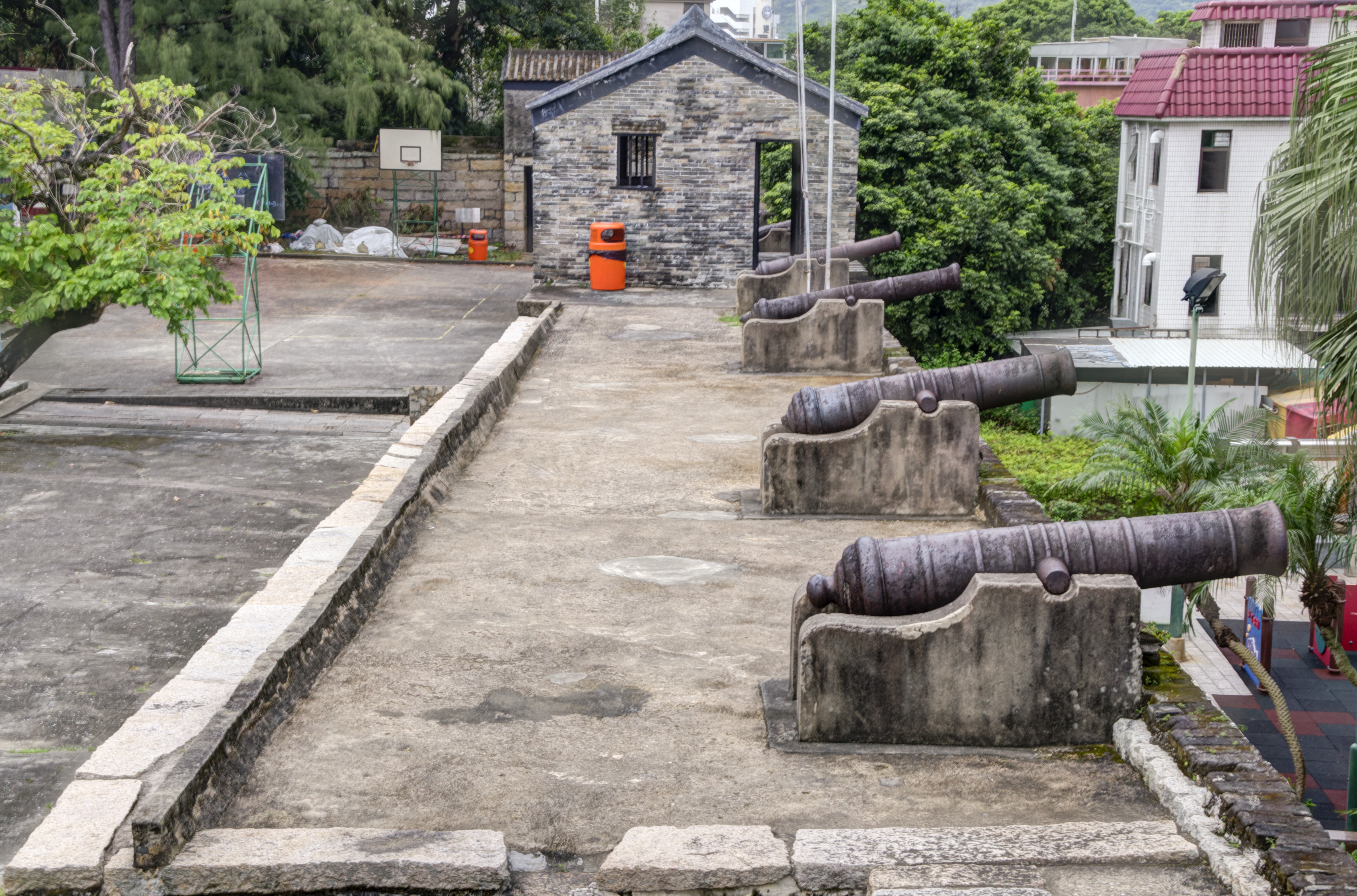 Canons at Tung Chung Fort